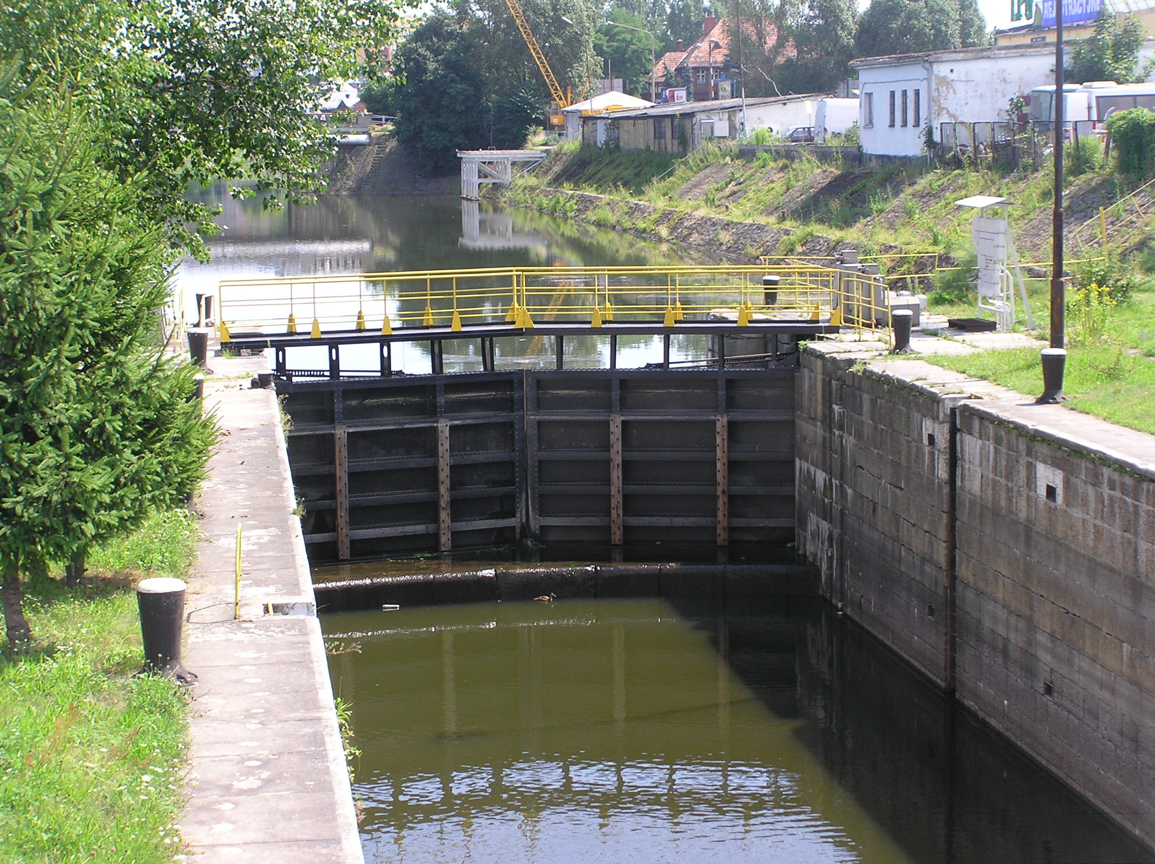 Wrocław, Oder River, trail side Oder waterway (european waterway E-30), Miejski Canal, Miejska Lock